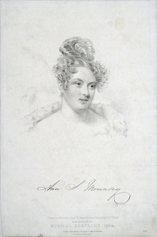 Ann Sheppard Mounsey (1811–1891), English pianist, organist and composer